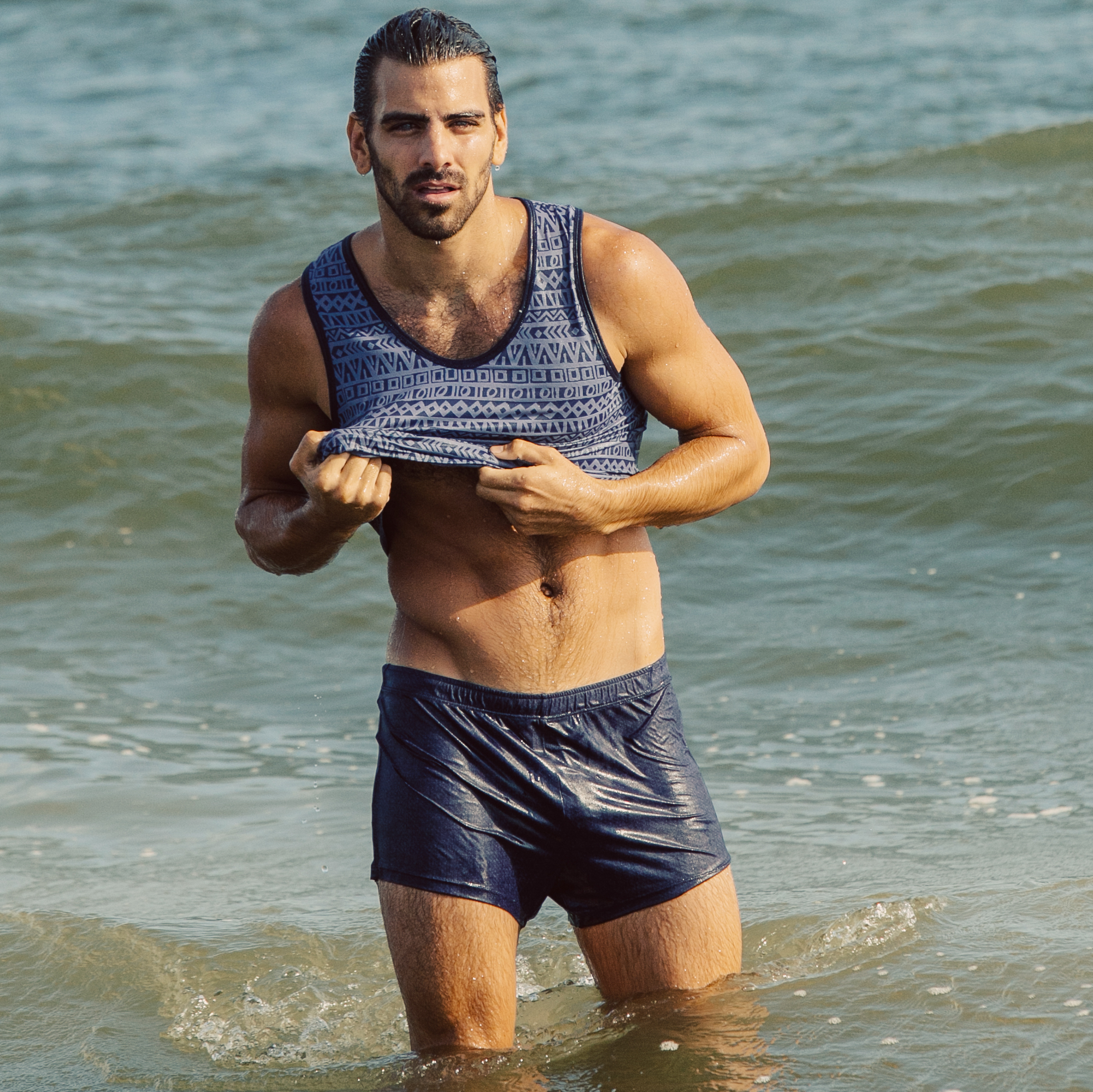 Nyle DiMarco